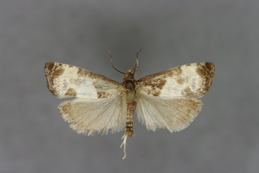 Notocelia cynosbatella